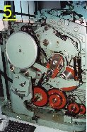 French N. Schlumberger PB31 combing machine Circ 1982 in a mill - Geelong. During my work in a mill - Photo taken on a 35mm Camera